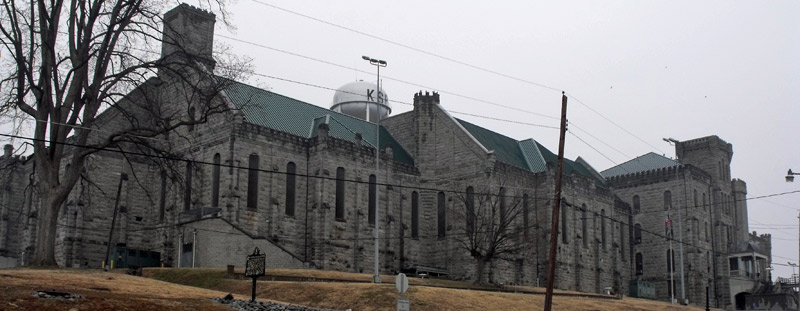 The Kentucky State Penitentiary in Eddyville, Kentucky, nicknamed "The Castle on the Cumberland"